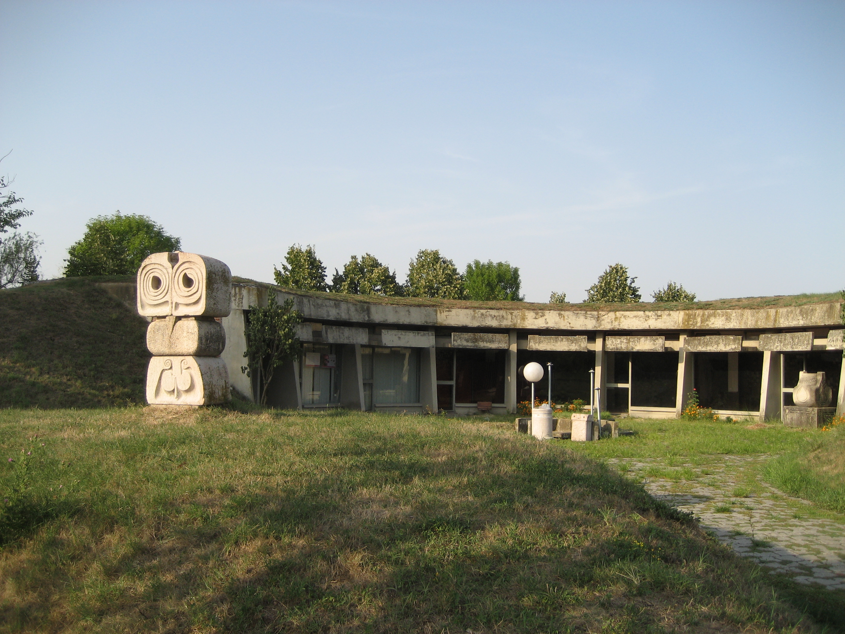 Information centre, necropolis Slobodište near Kruševac, Serbia